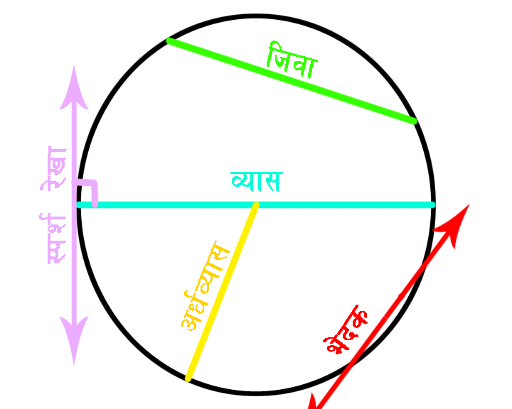 Parts of circle in Nepali.